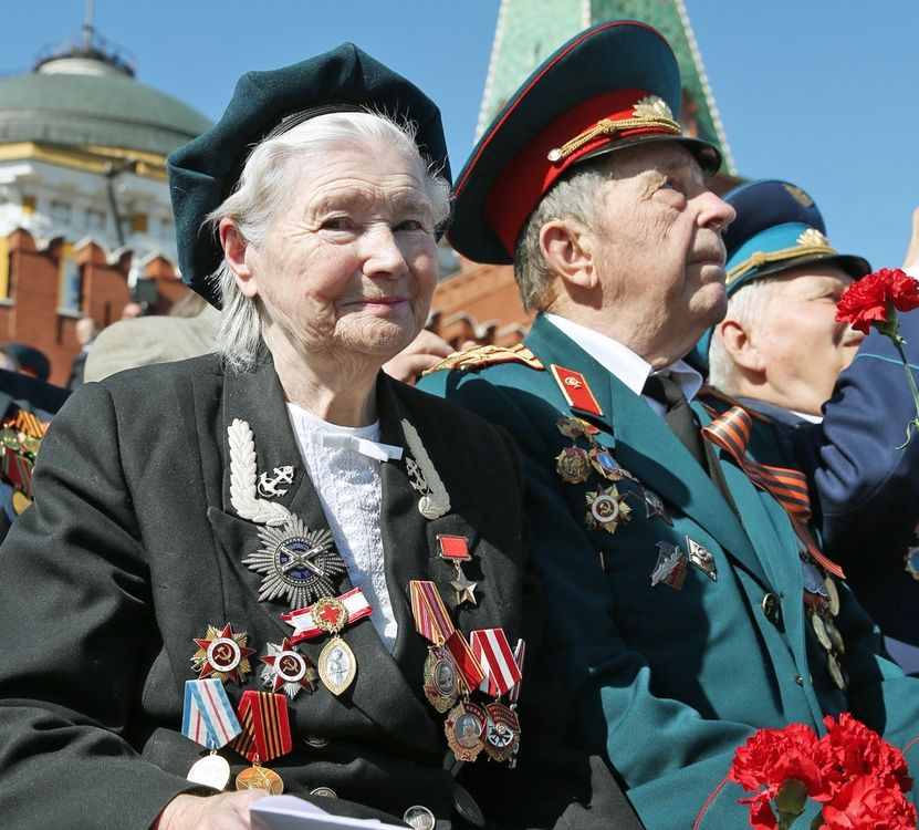 Ekaterina Mikhailova-Demina, Hero of the Soviet Union. Moscow. 9 May 2013.